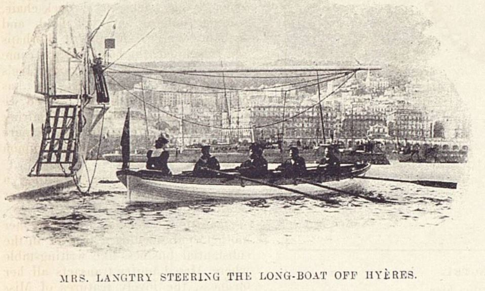 1895 Lillie Langtry going ashore from yacht White Ladye from newspaper